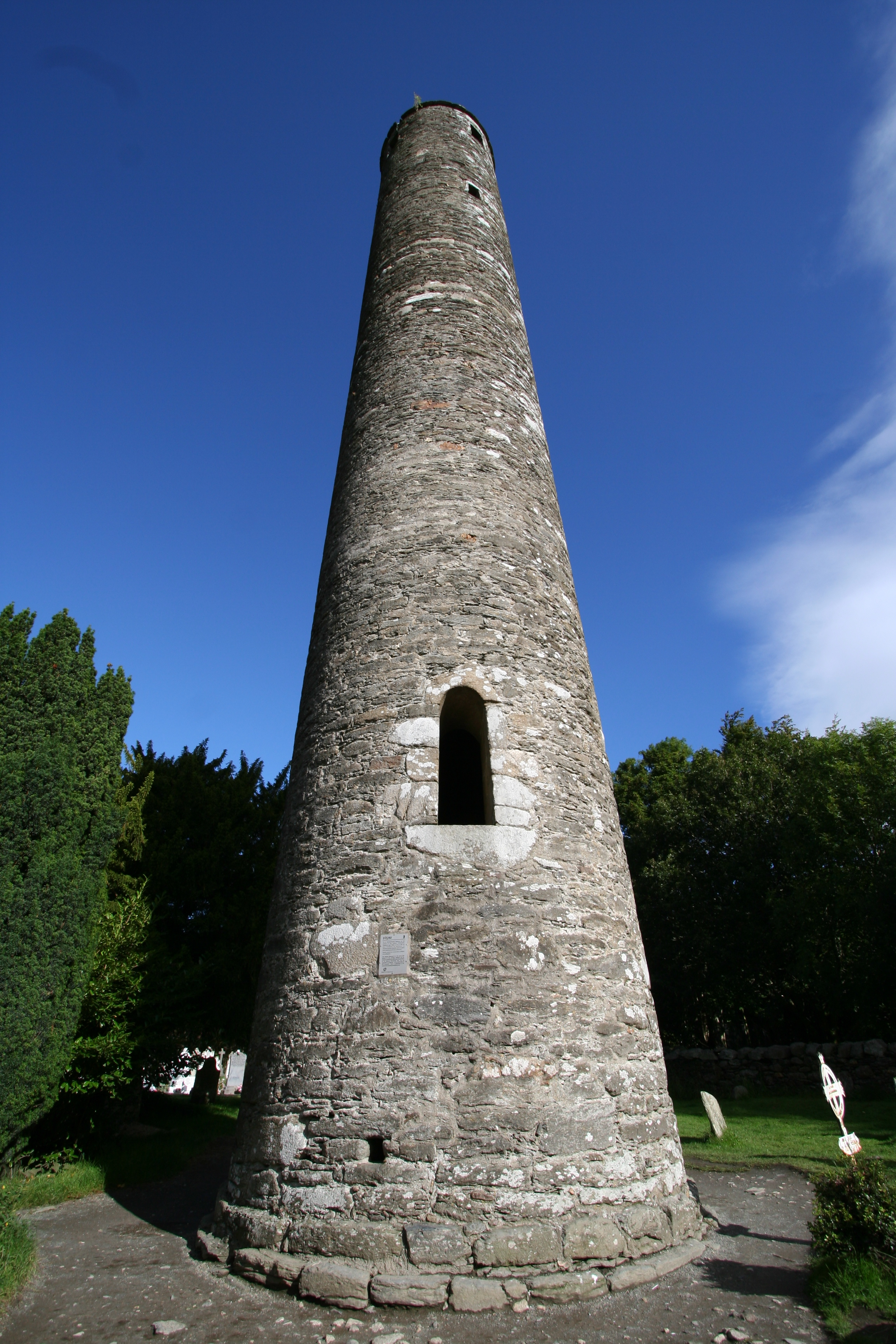 Glendalough tower